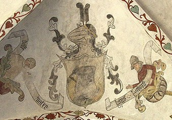 A 15th century church-painting from the St. Mary's Church of Helsingør, Denmark showing Hans Pothorst's coat of arms.